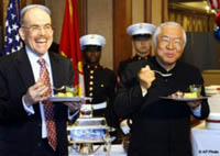 James Zumwalt, Charge d'Affaires, and Yukio Hattori, Principal of Hattori Nutrition College, tasted a special menu at the Embassy's Independence Day Celebration in Tōkyō Metropolis on July 2, 2009.